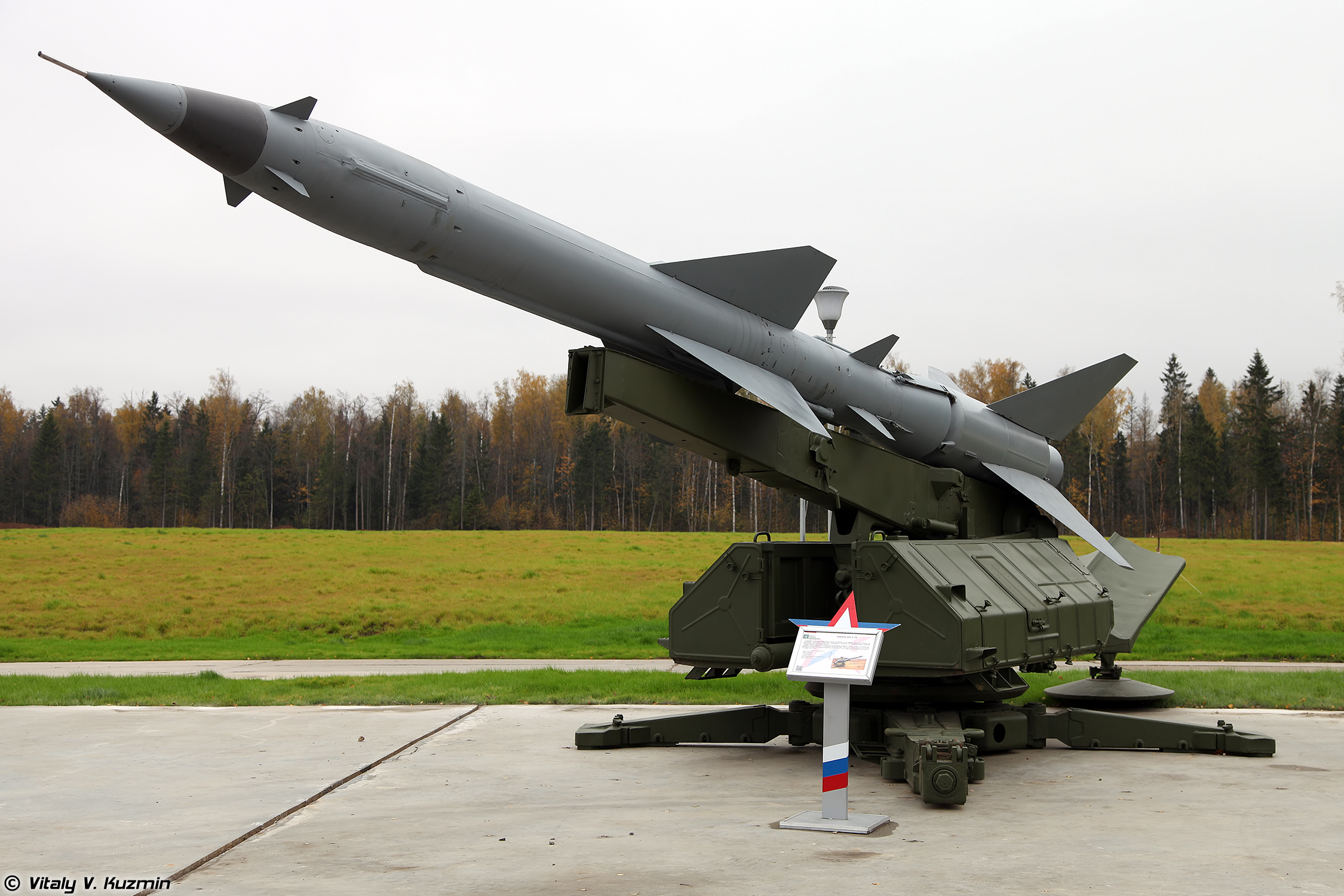 S-75M system - Park Patriot